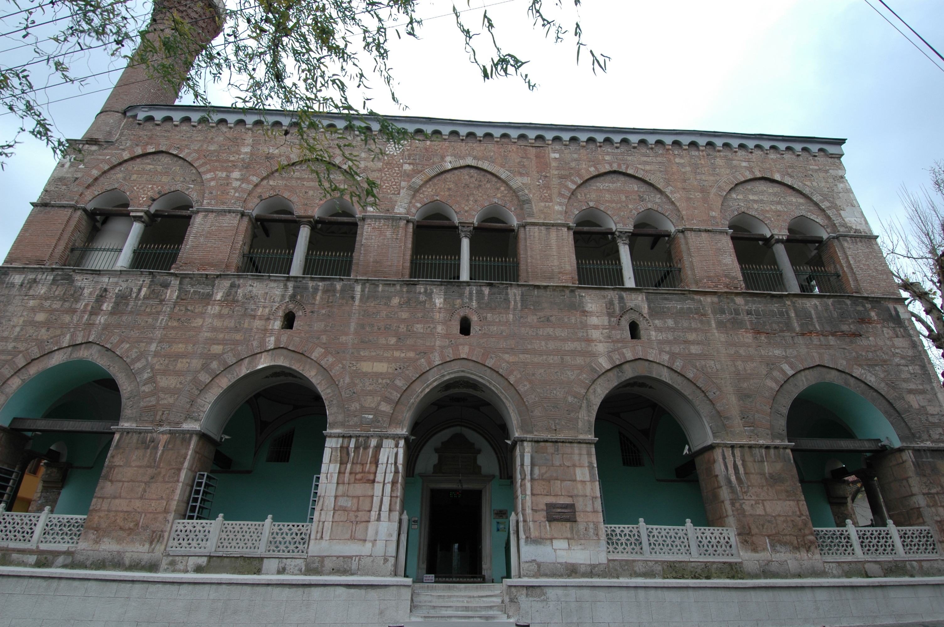 the mosque is special in that it has the medrese integrated into the mosque building, unique in Ottoman architecture. Influence of Italian architecture can be seen in the façade.